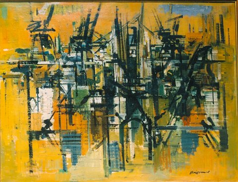 Edmond Boissonnet